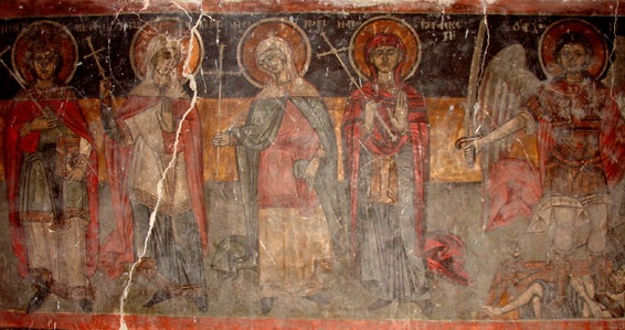 Agios Germanos St Athanasius Church Fresco